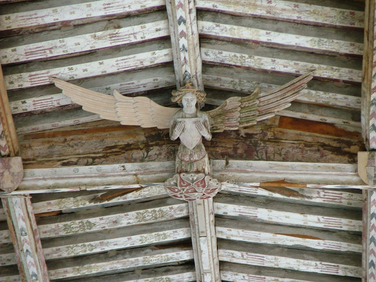 Roof angel from Holy Trinity church, Blythburgh, Suffolk Photographed on 5 ix 05 with a Fuji Finepix S5000.